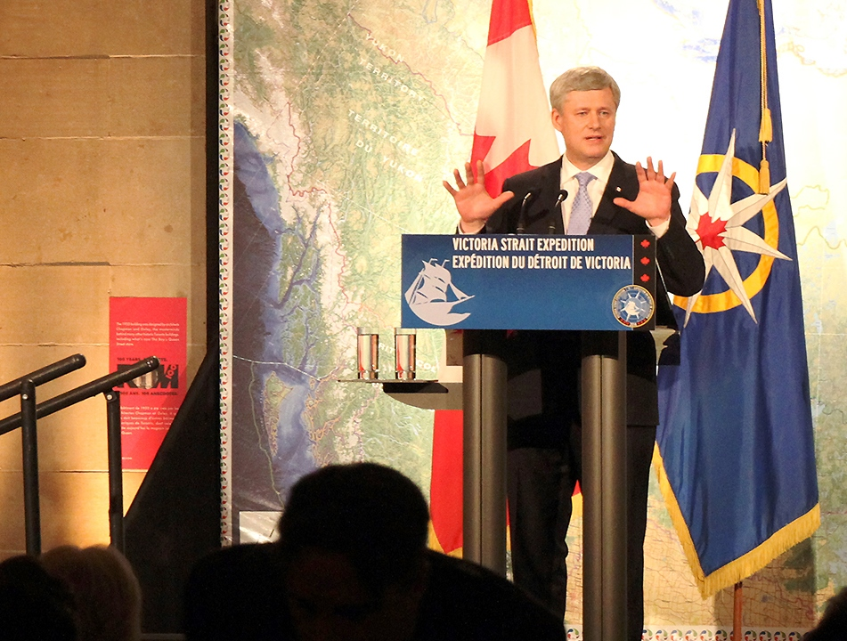 Canadian Prime Minister Stephen Harper appearing at a gala to celebrate last summer's discover of the HMS Erebus, one of two ships wrecked in 1846 during Franklin's lost expedition. Hosted at the Royal Ontario Museum in Toronto, Canada.